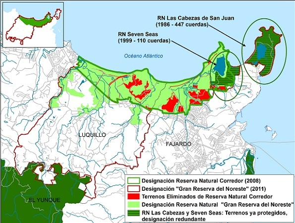 Grand Northeast Ecological Reserve. Proponents argue that this plan will protect a wider area in order to maintain connectivity with El Yunque National Forest. Detractors state that while some of the "newly protected areas" already enjoy protected status, are flood-prone areas, or already constructed, 450 cuerdas will have their protected status rescinded.